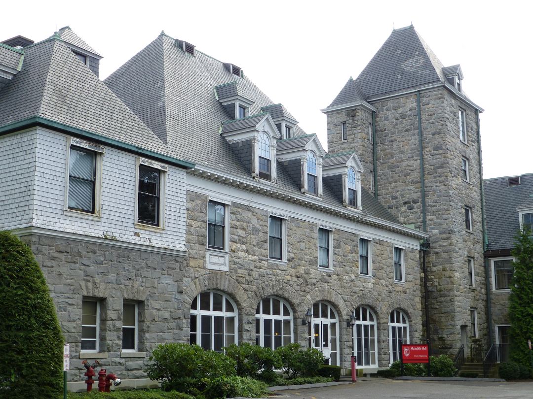 Full View of McAuliffe Hall at Fairfield University in Fairfield, Connecticut, USA.